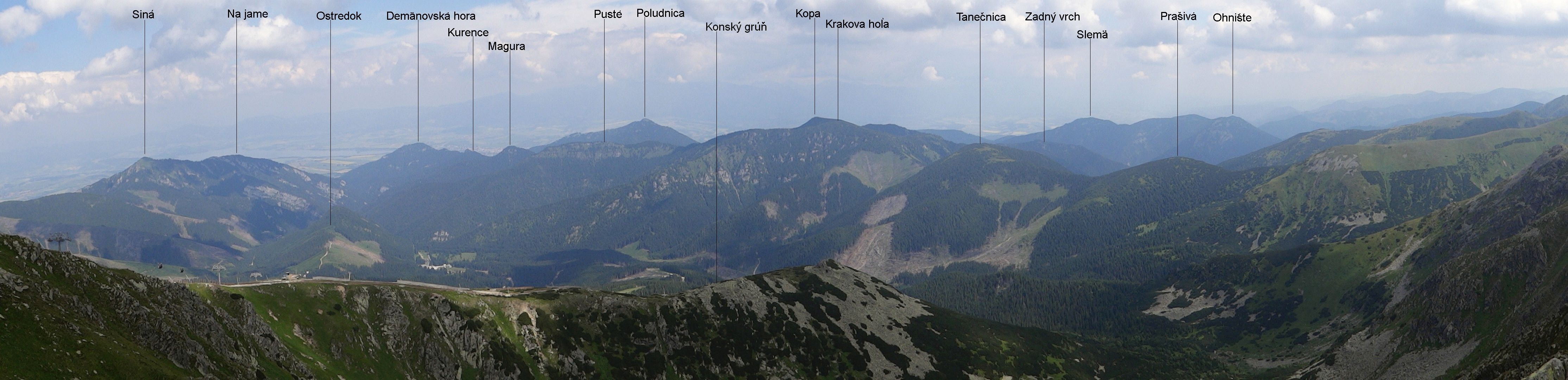 Views from Chopok to north